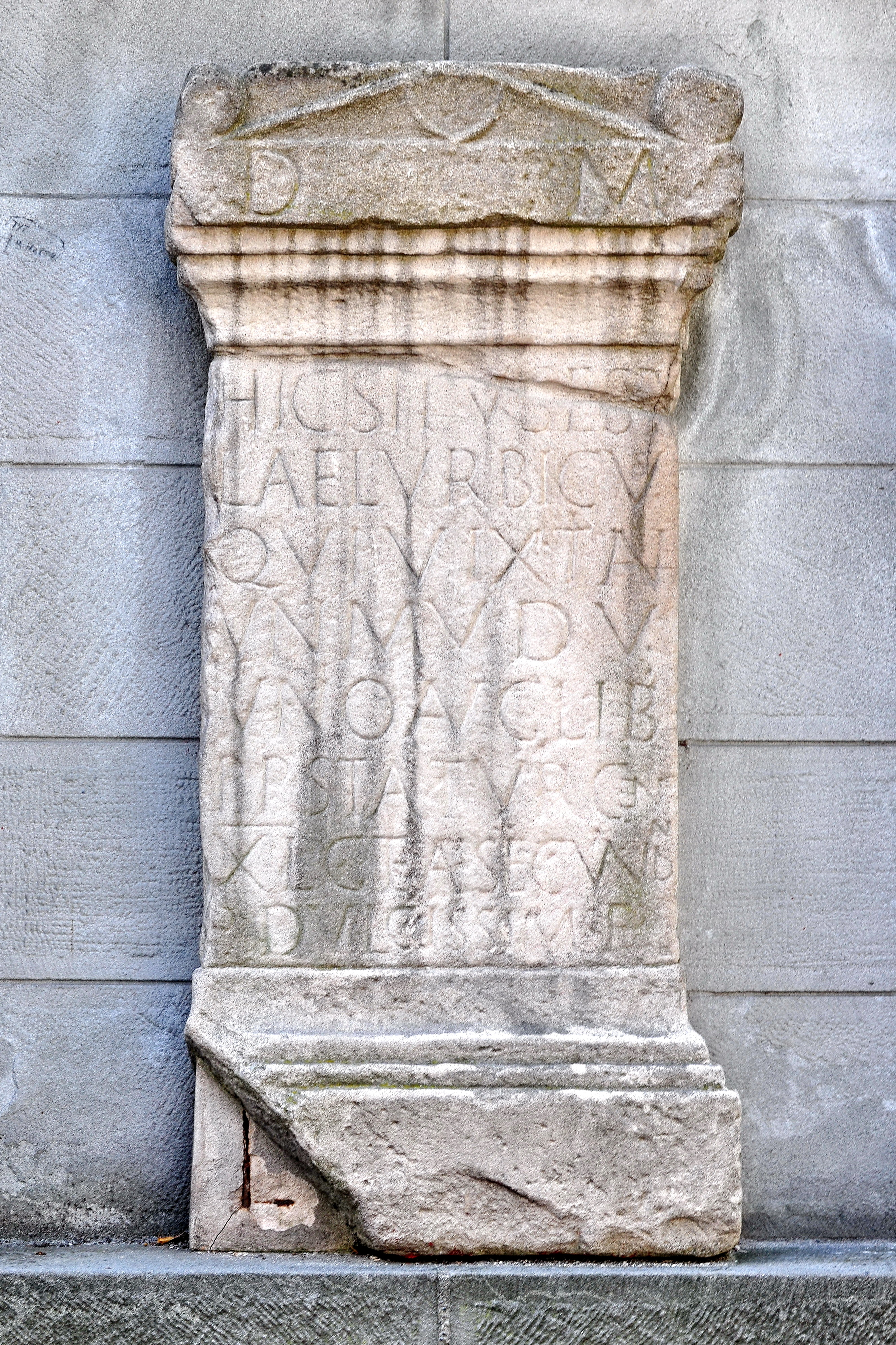 Modern replica of an Ancient Roman gravestone along the Pfalzgasse on the Lindenhof hill in Zürich, Switzerland – the original, now in the Landesmuseum (Swiss National Museum) in Zürich, dates from 185/200 AD. It contains the first recorded mention of "Turicum" (latin name of Zurich). The gravestone was erected for Lucius Aelius Urbicus, a one-year old child, by his parents Unio, freedman of Augustus, and Aelia Secundina. Corpus Inscriptionum Latinarum, XIII 5244.